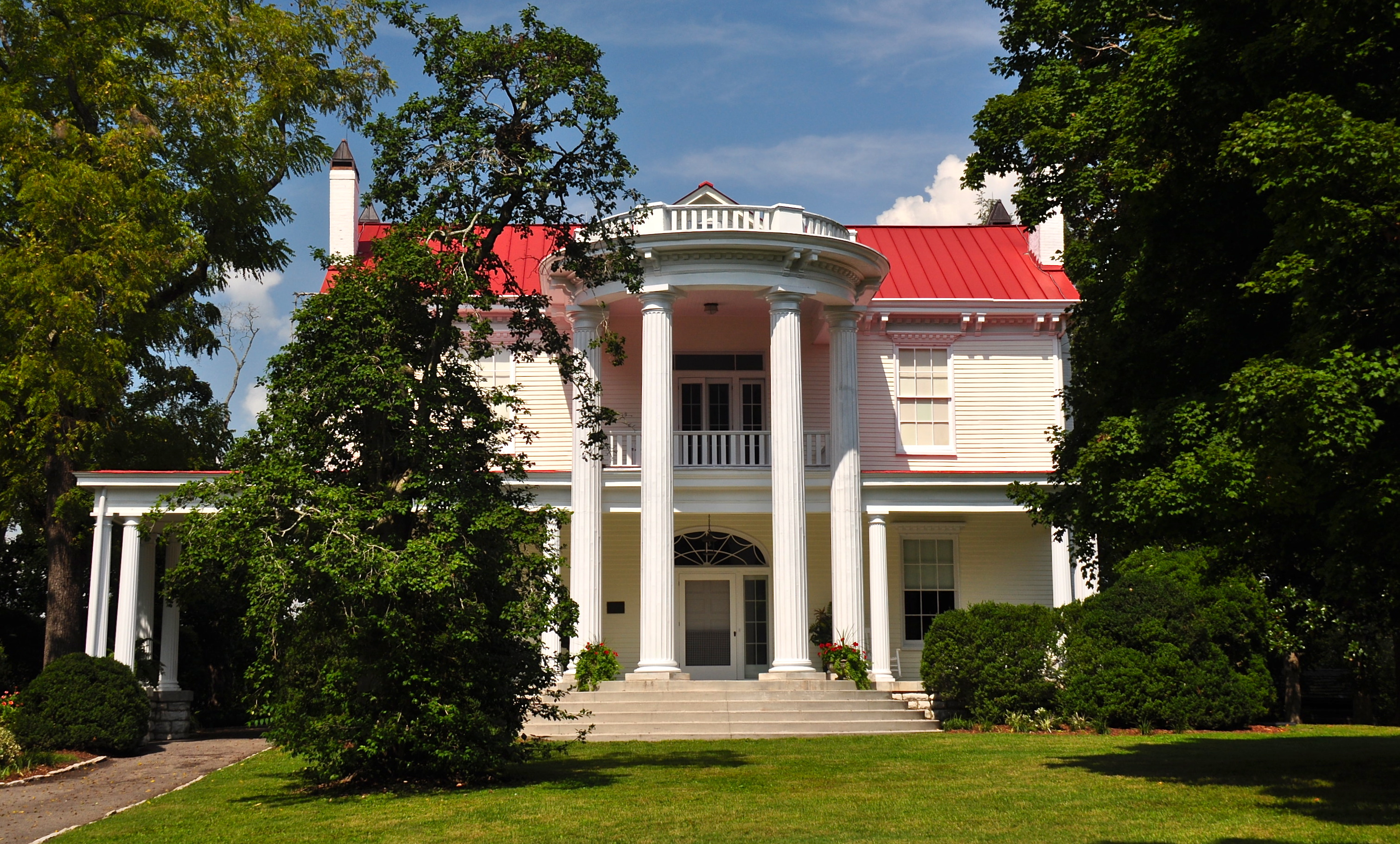 Maney-Sidway House, Myles Manor Ct., west of Franklin Rd./U.S. Route 31 Franklin